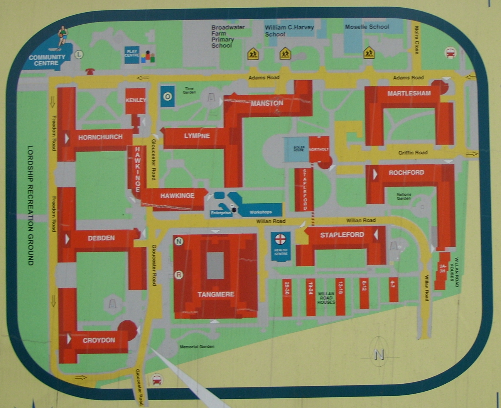 Map of Broadwater Farm, London, on display at the Willan Road entrance